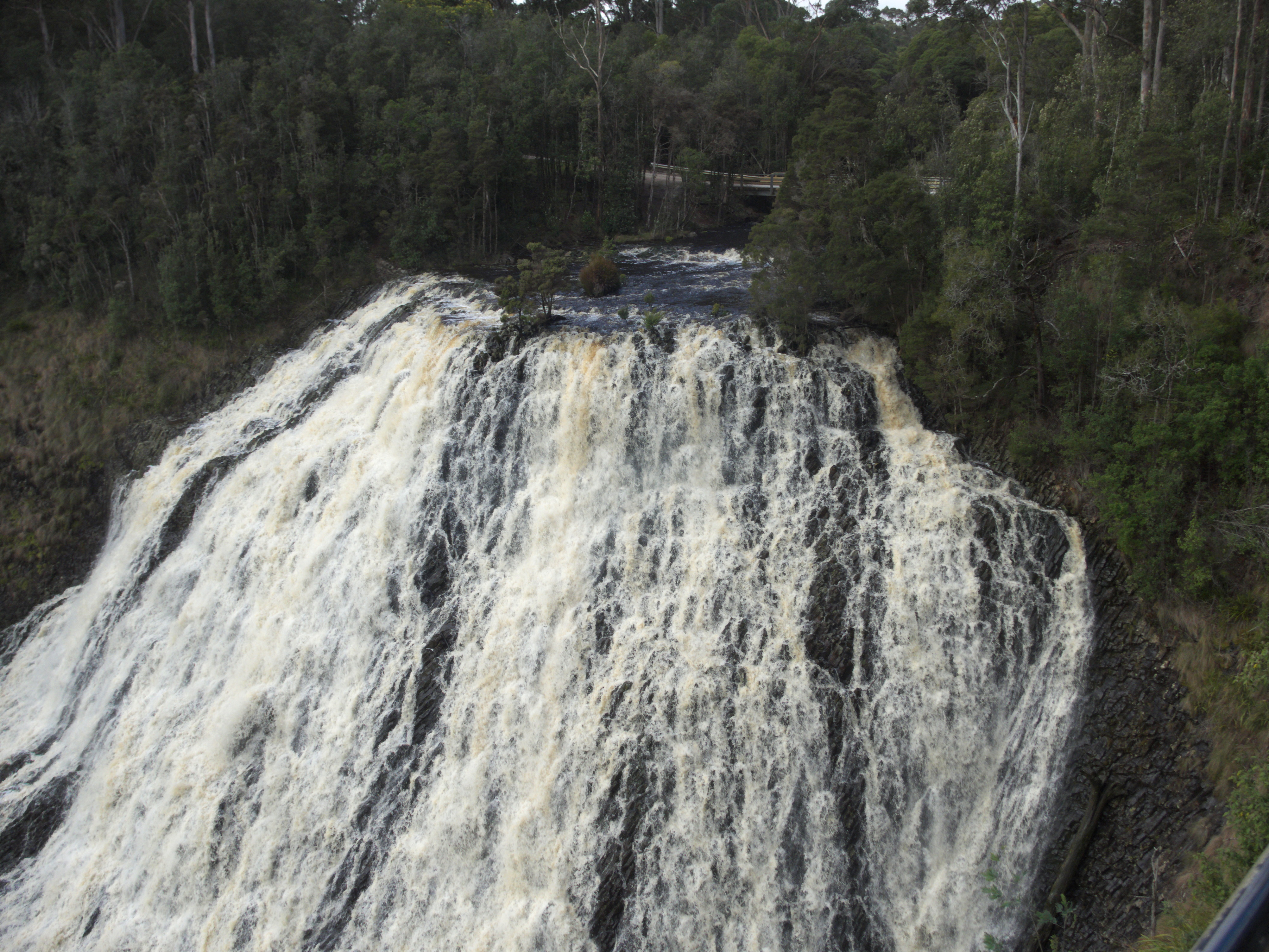 Dip Falls, Mawbanna, Tasmania, as seen from the upper viewing platform.